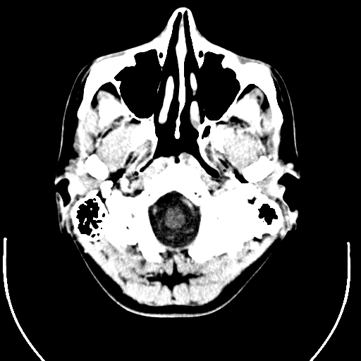 Computer tomography of human brain, from base of the skull to top. Taken with intravenous contrast medium. It was taken Mars 23, 2007 on the uploader, after a 20 minute episode of homonymous hemianopsia with loss of the left visual field, but nothing strange was found. Three episodes of scotoma occurred in the following years, whereof the last one was scintillating (depiction). Otherwise, there were no further neurological symptoms.